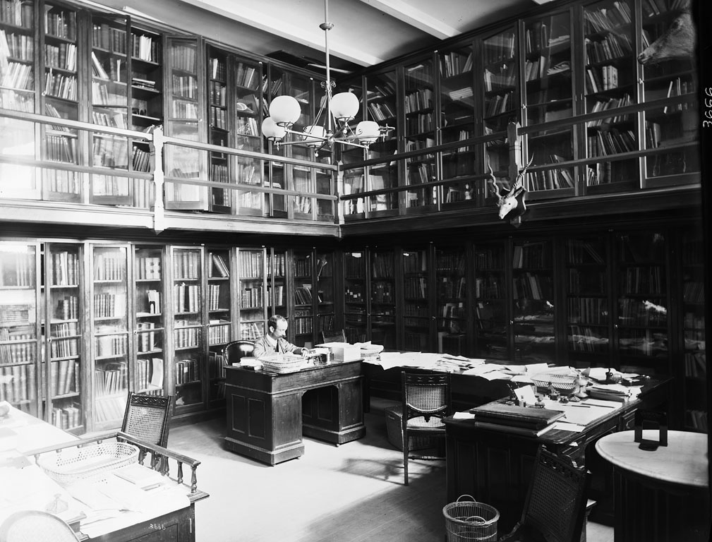 Library, later known as the Jewett Room, in the United States National Museum Building, now known as the Arts & Industries Building, housed the U. S. National Museum library, and was located in the Northwest Pavilion. This room later housed the rare book collection. John Murdoch, Librarian of the Smithsonian Institution, sits at a desk. Murdoch was formerly the Assistant Librarian of the National Museum Library and succeeded Miss Jane A. Turner as Librarian April 1, 1887. He resigned May 15, 1892